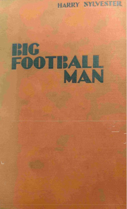 The first edition of Big Football Man published in 1933 by Farrar & Rhineheart Inc.